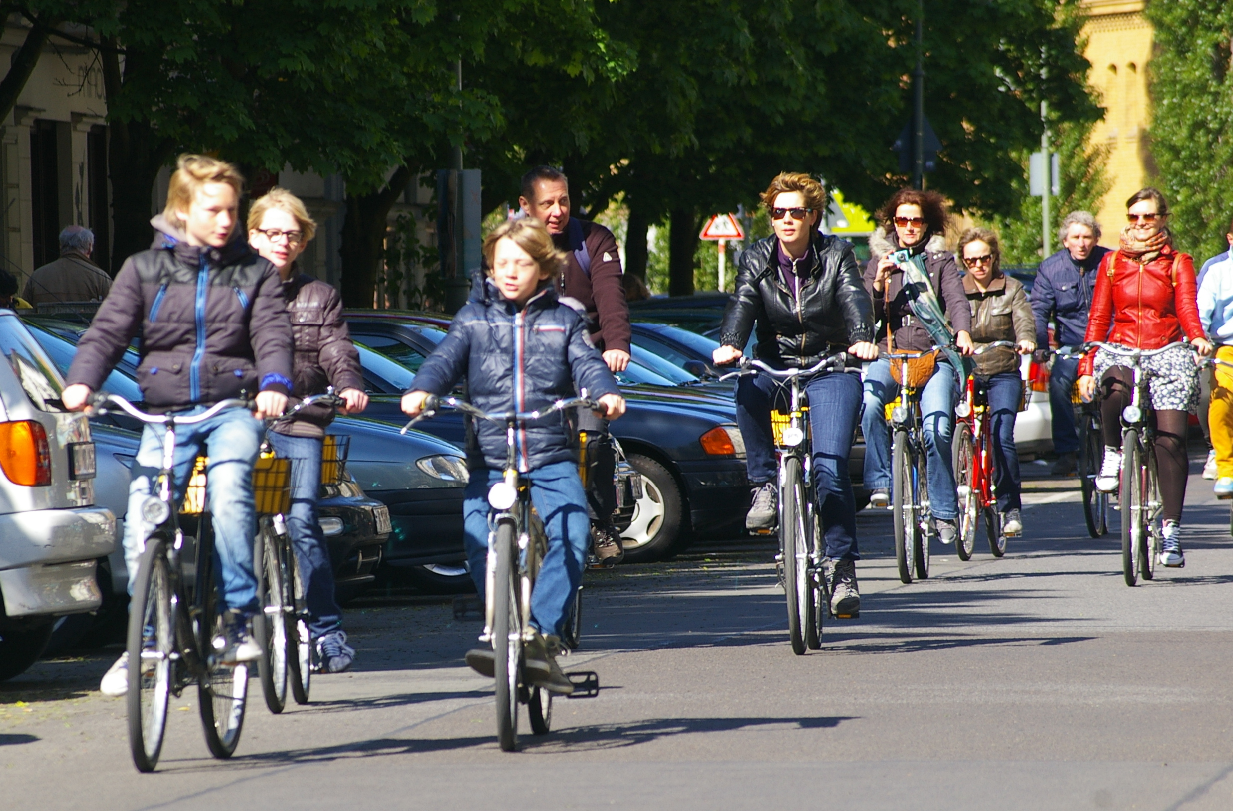 Cycle tour, Saturday morning, Prenzlauer Berg, Berlin